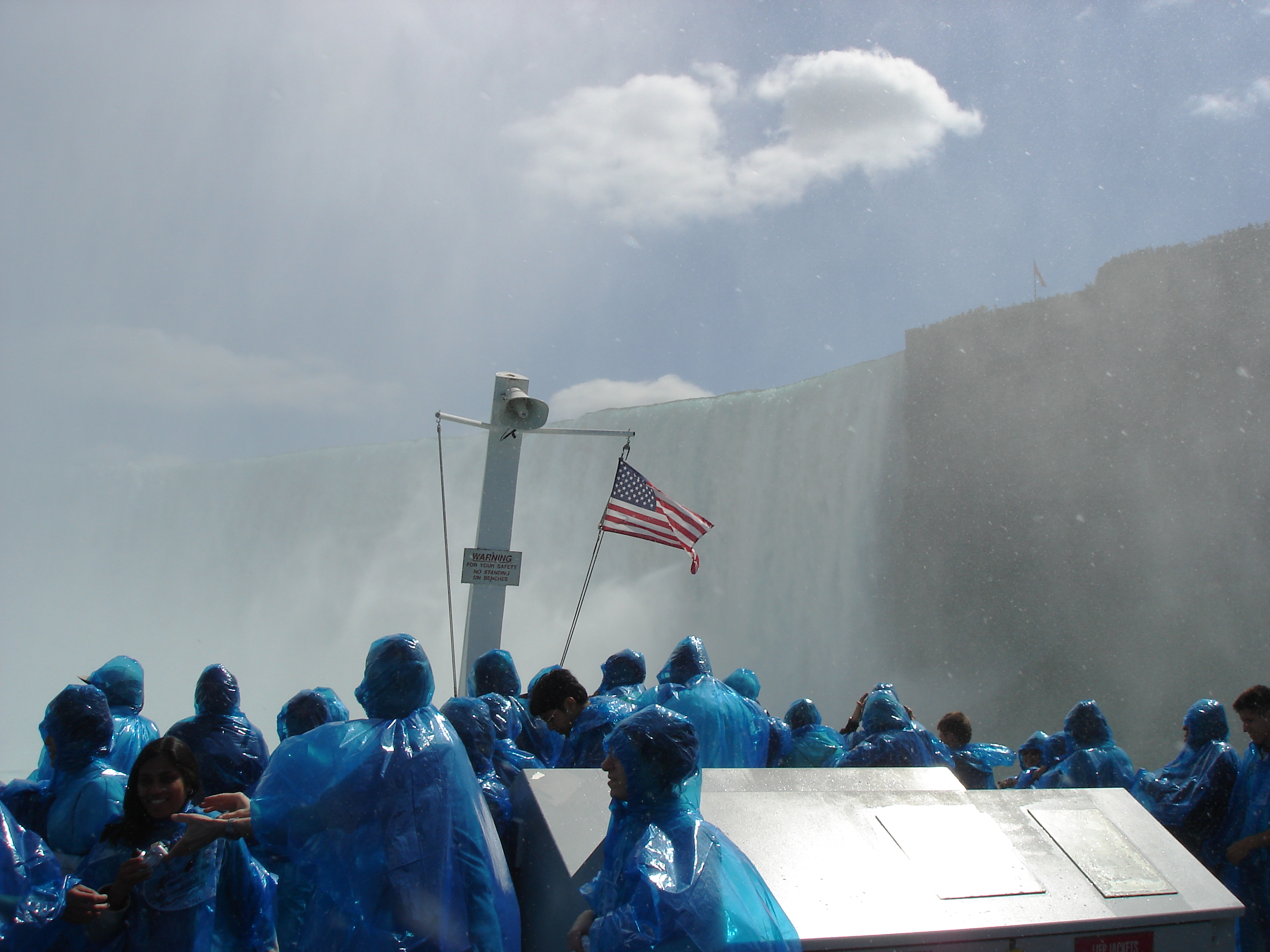 Taken by Georgi Banchev in June 2006.